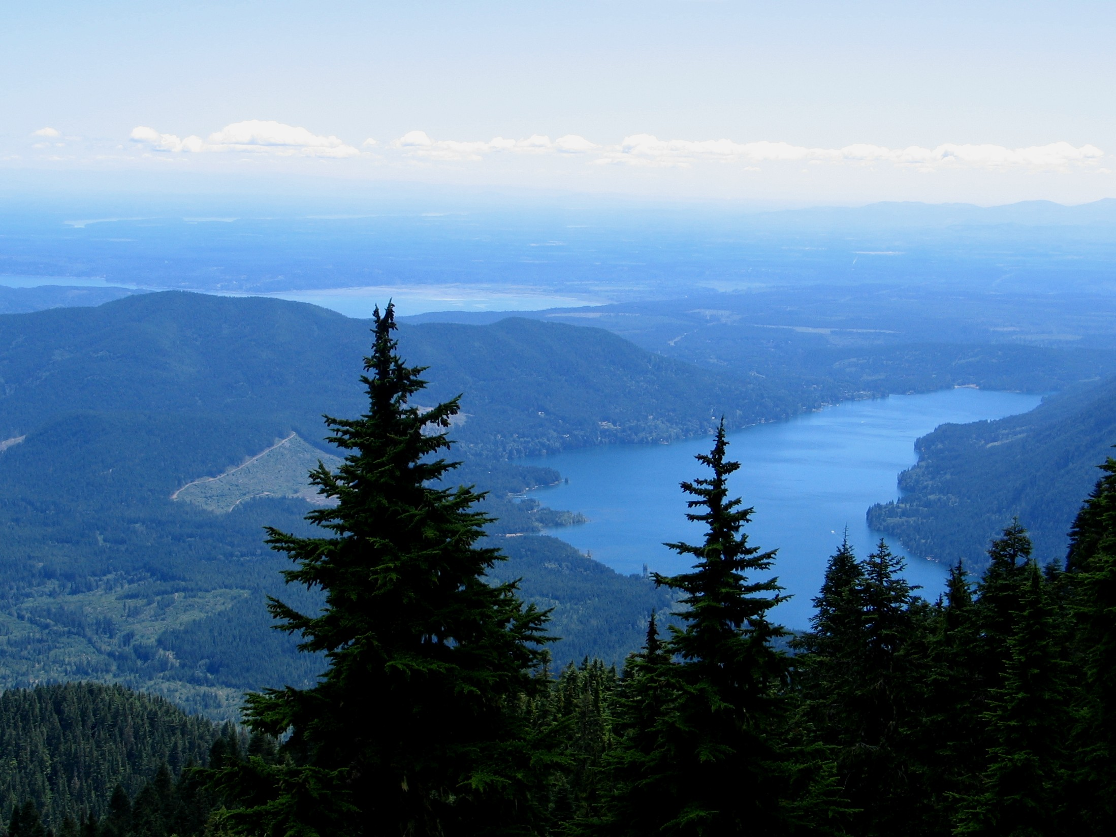 Lake Cushman in Washington State, USA